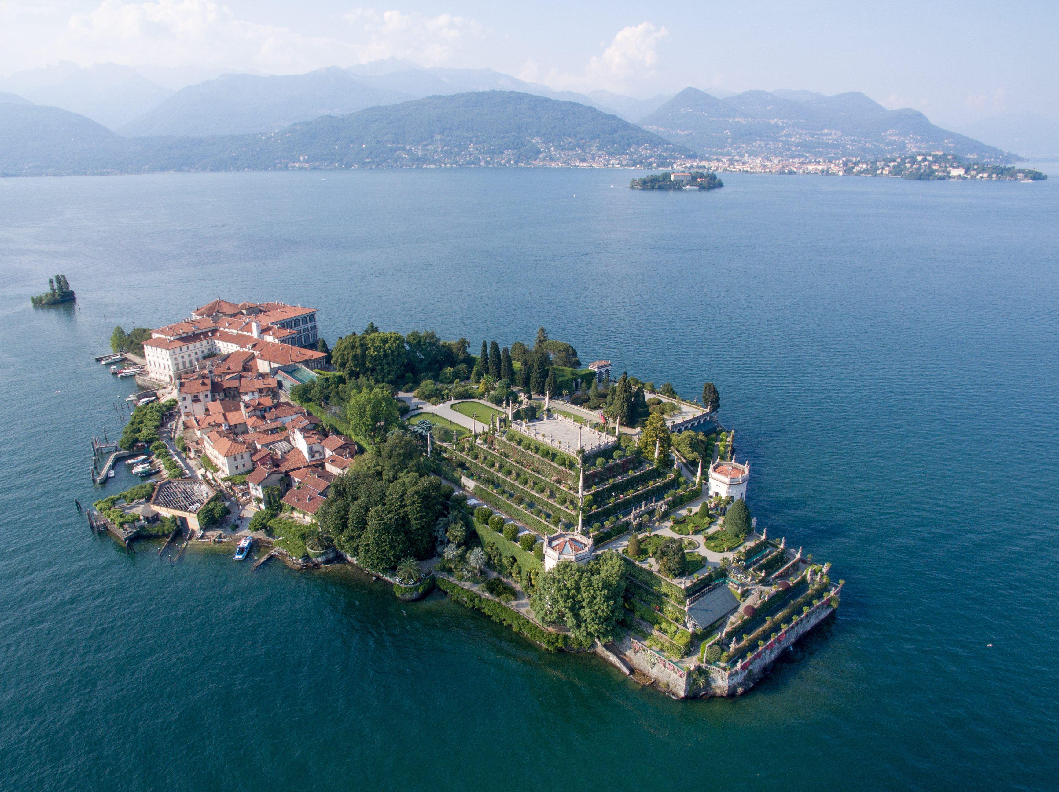 Aerial view, from a drone, of the Isola Bella, in the Borromean Islands of Lake Maggiore